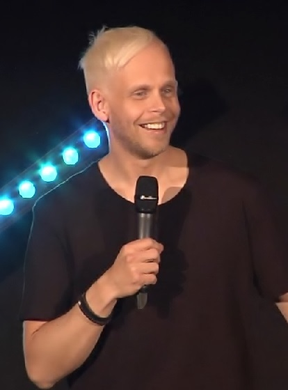 Andreas Nielsen preaching in Hillsong Church Stockholm 2014